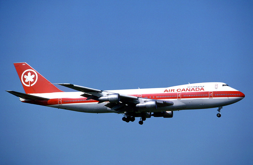 Air Canada Boeing 747-133 C-FTOC at Zurich International Airport